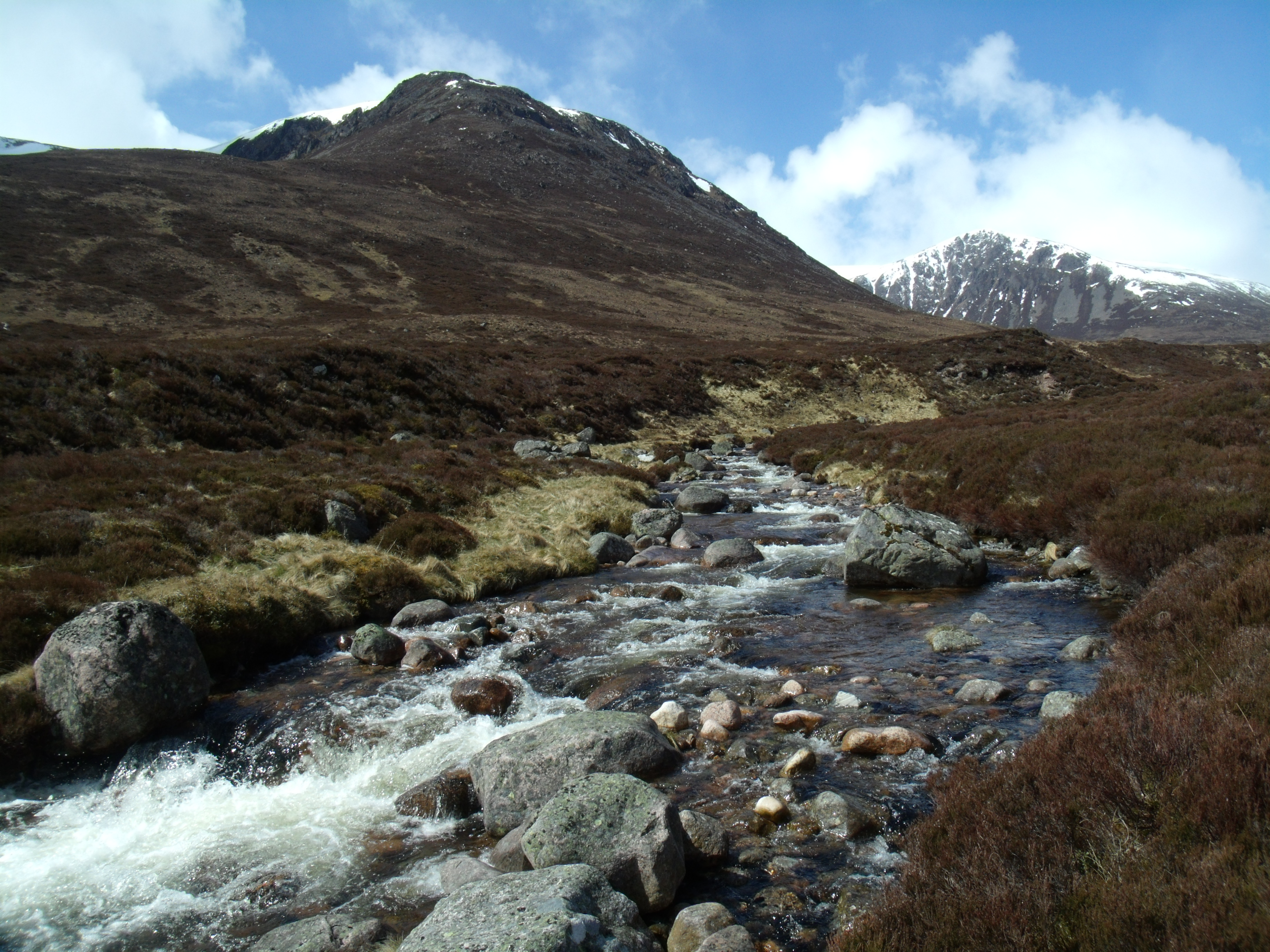 Uisge an Doire ("Water of the Copse")